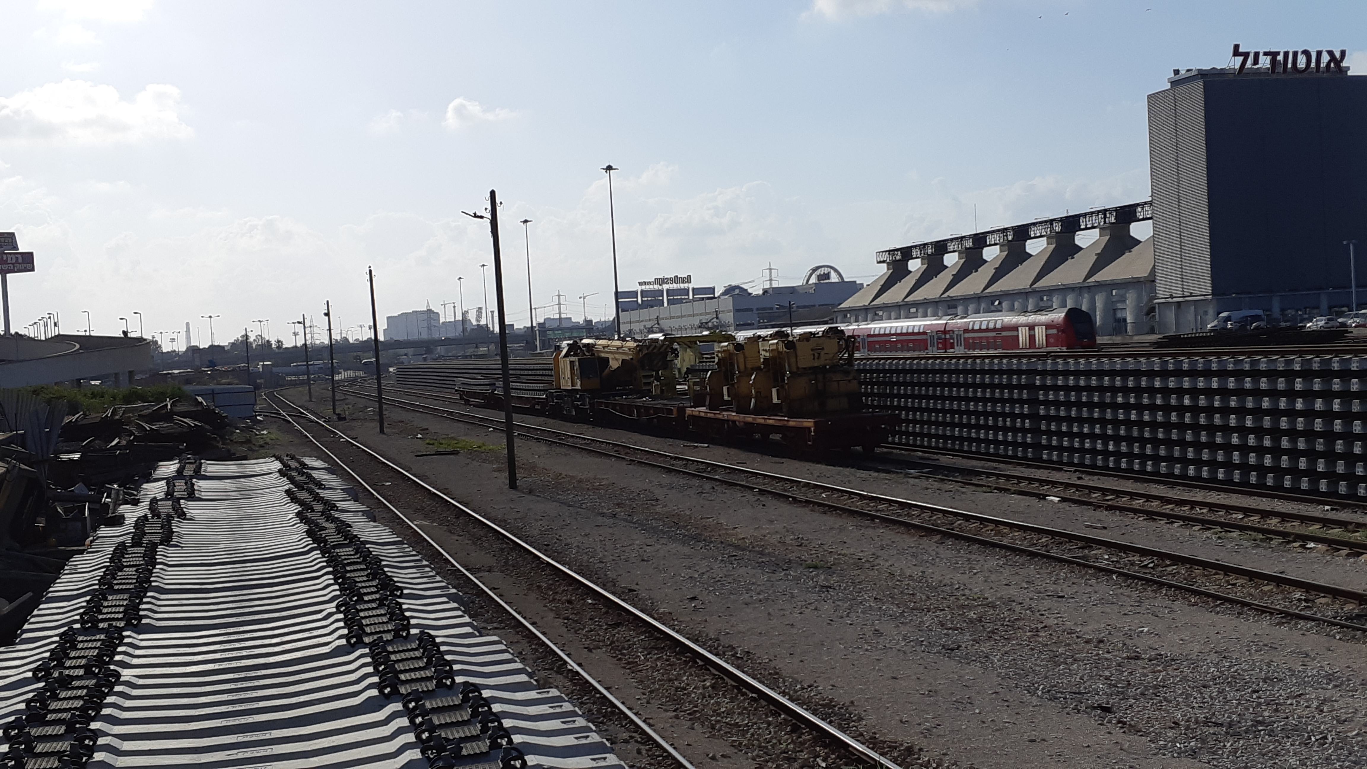 Bney Brak Staition From East